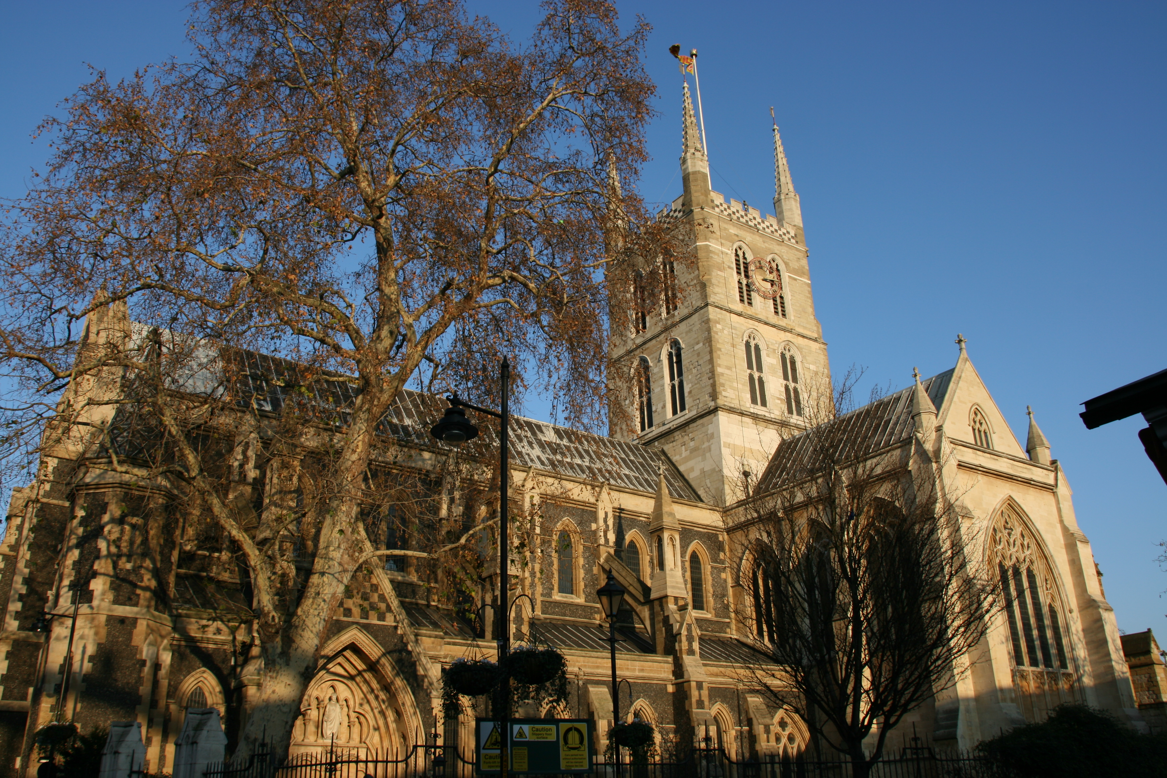 Southwark Cathedral near London Bridge in London. Originally built as the Medieval Augustinian priory of St Mary Overie, designated as a Cathedral in 1905.